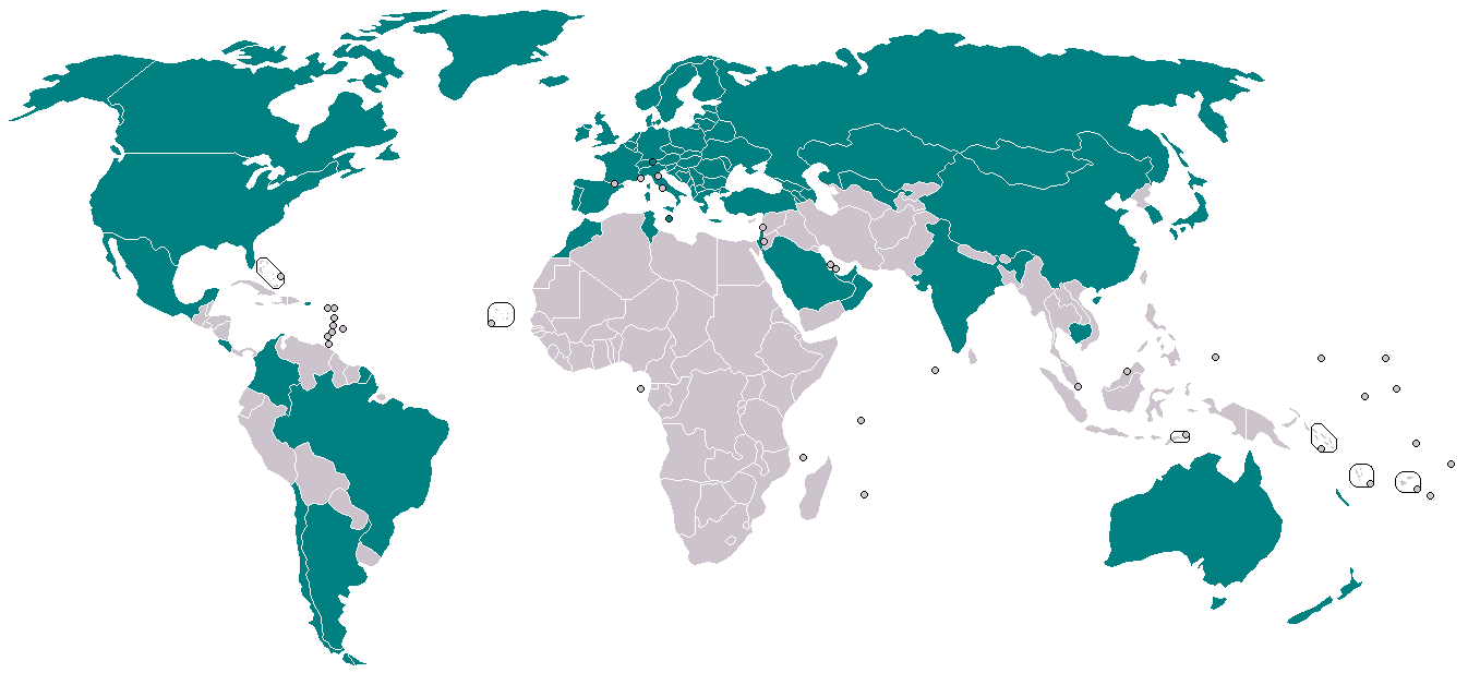 light green - observers